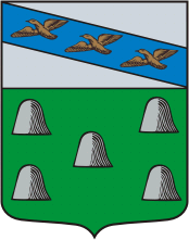 Dmitriev-Lgovsky (Kursk oblast), coat of arms (1780)